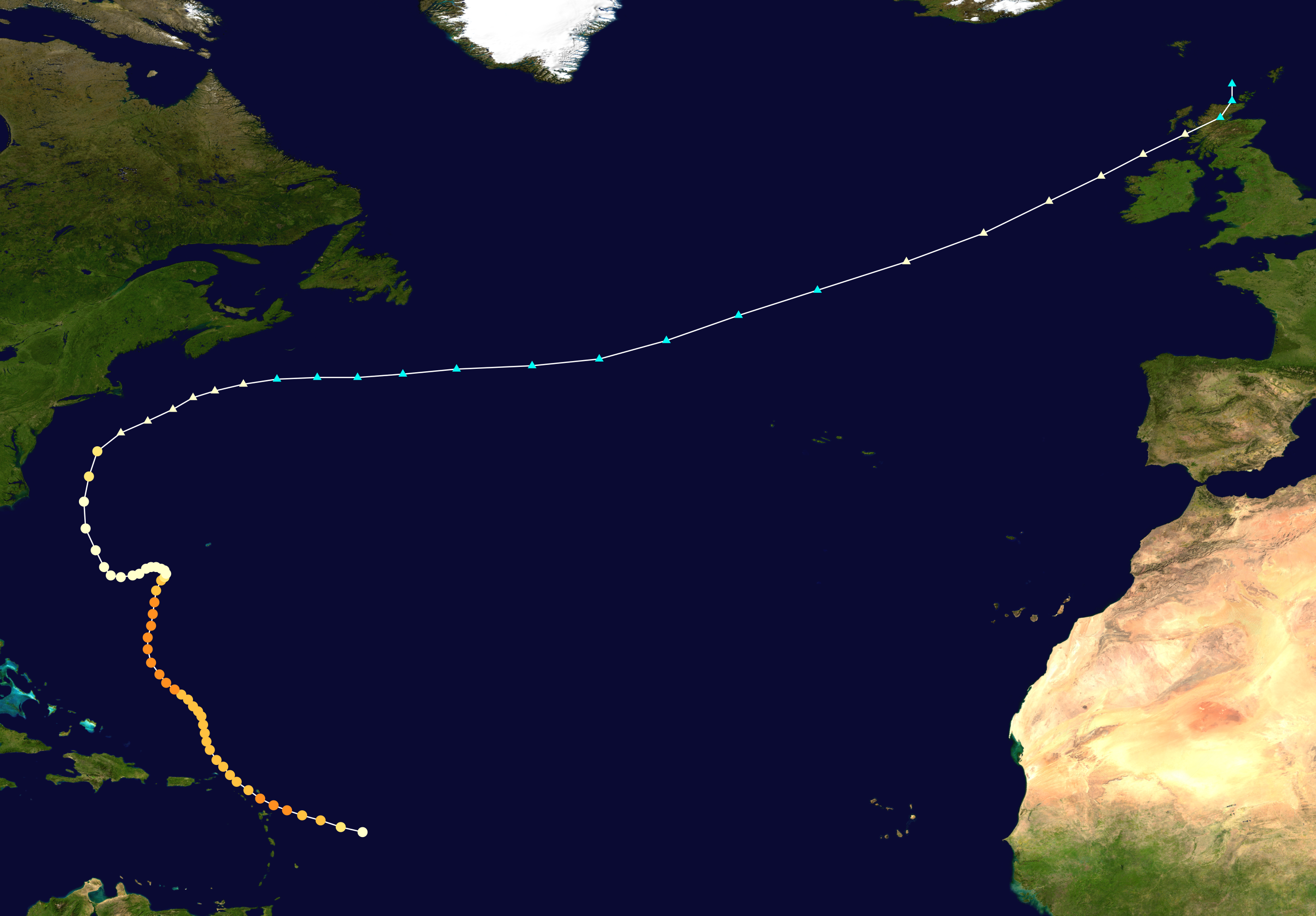 Track map of Hurricane Dog of the 1950 Atlantic hurricane season. The points show the location of the storm at 6-hour intervals. The colour represents the storm's maximum sustained wind speeds as classified in the Saffir–Simpson scale (see below), and the shape of the data points represent the nature of the storm, according to the legend below. Saffir–Simpson scale Tropical depression≤38 mph≤62 km/h Category 3111–129 mph178–208 km/h Tropical storm39–73 mph63–118 km/h Category 4130–156 mph209–251 km/h Category 174–95 mph119–153 km/h Category 5≥157 mph≥252 km/h Category 296–110 mph154–177 km/h Unknown Storm type Tropical cyclone Subtropical cyclone Extratropical cyclone / Remnant low / Tropical disturbance